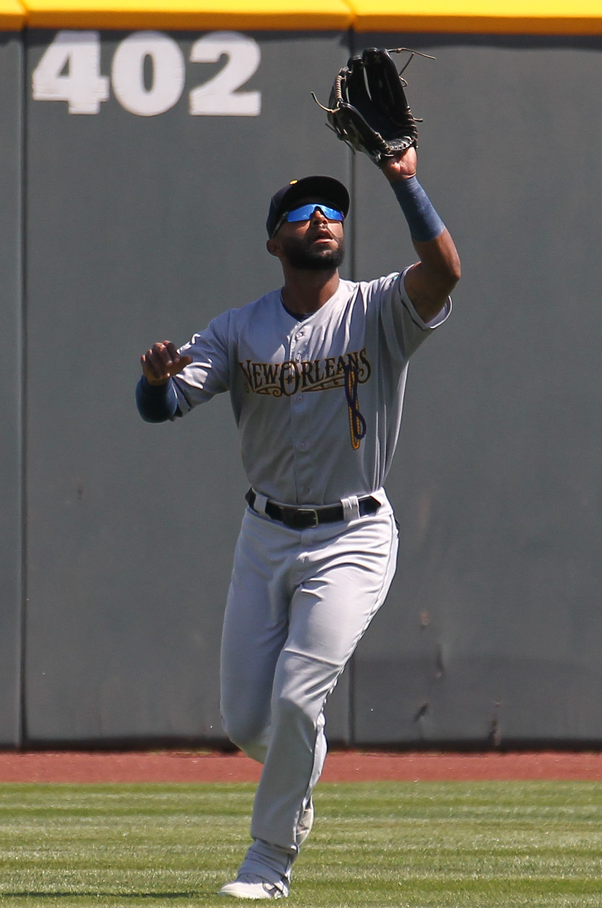 Isaac Galloway of the New Orleans Baby Cakes settles under a fly ball during a 2019 game at Werner Park in Nebraska